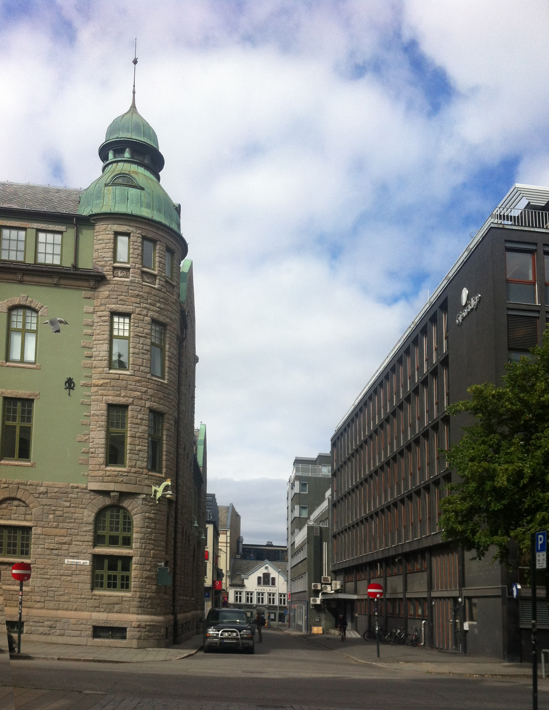 Apotekerveita, a narrow street (=veit) in Trondheim, Norway